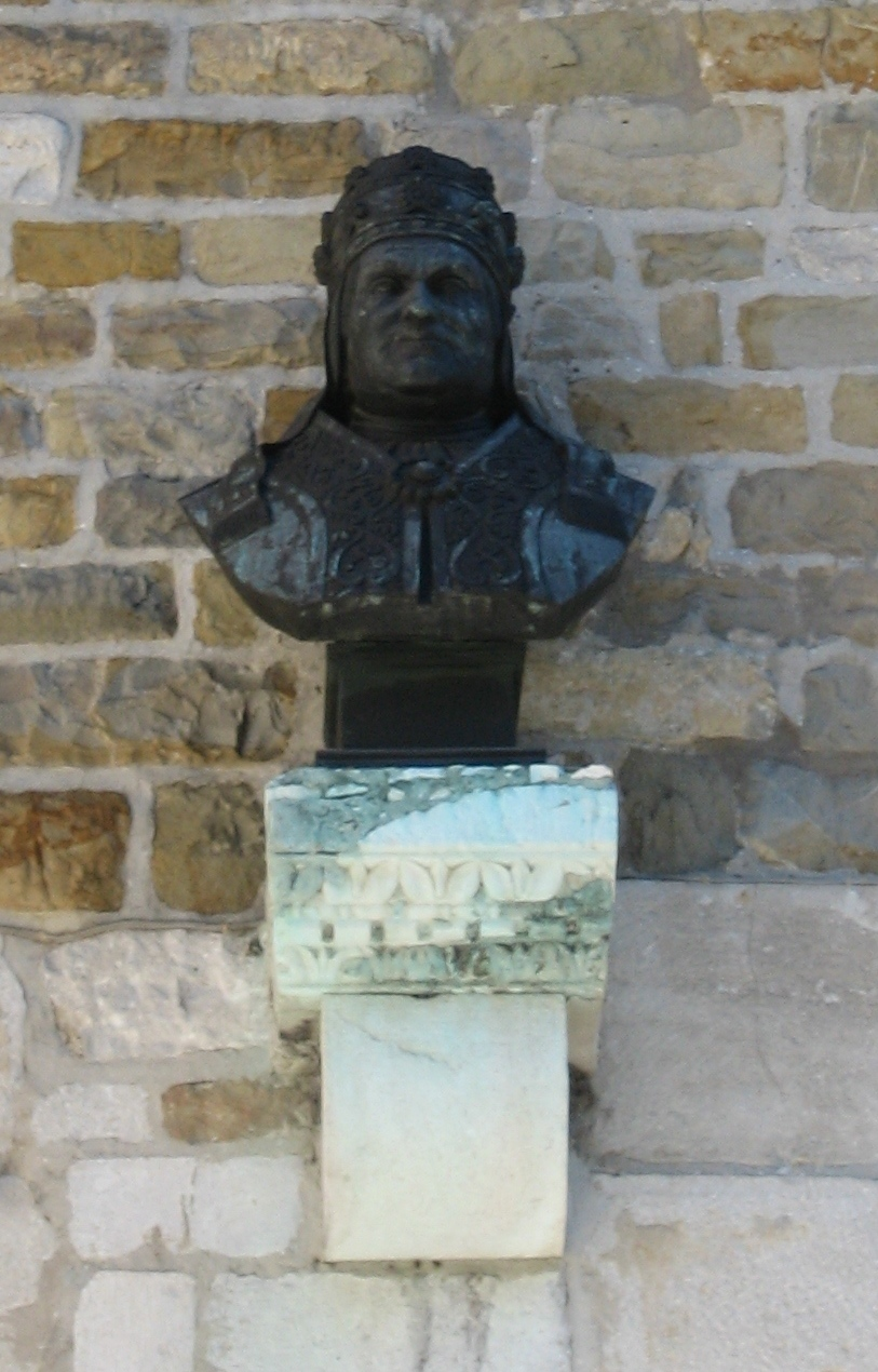 Bust of Pope Pius II, former bishop of Trieste, located over the main entrance of the Cathedrale of Trieste